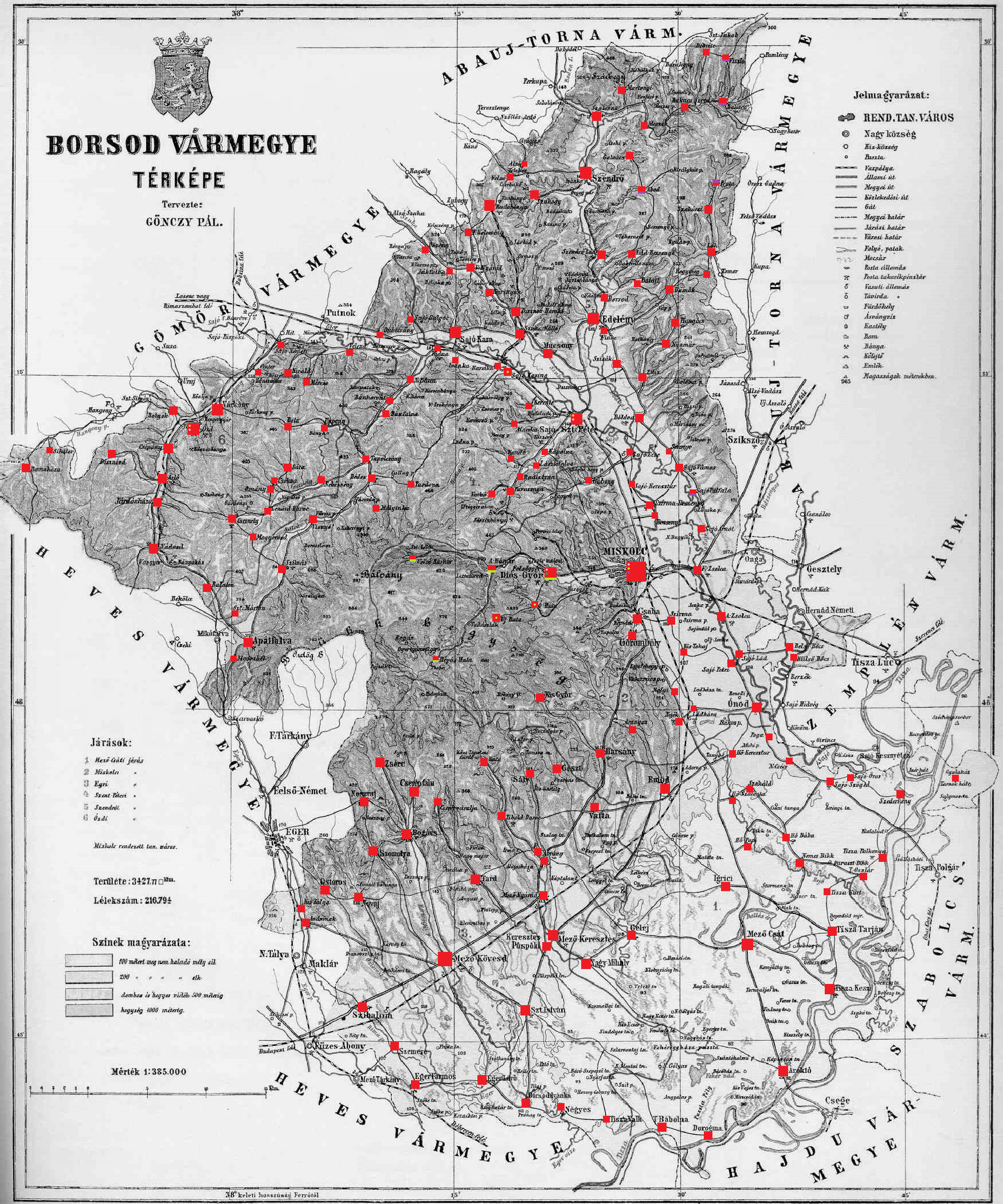 Ethnic map of the county (with data of the 1910 census). Key: red - Hungarians; light green - Slovaks; violet - Ruthenians; pink - Germans. Coloured dots in plain rectangles imply the presence of smaller minority populations (generally more than 100 people or 10%). Multicoloured rectangles imply cities and villages with multi-ethnic populations with the order of the stripes following the ethnic composition of the settlement. Some obvious mistakes of the census data were corrected i.e. the old Ruthenian communities of the Cserehát region were misidentified as Slovaks at the time. The Slovaks of Ó- and Új-Huta villages are also indicated on this map although they were missing in that particular census.